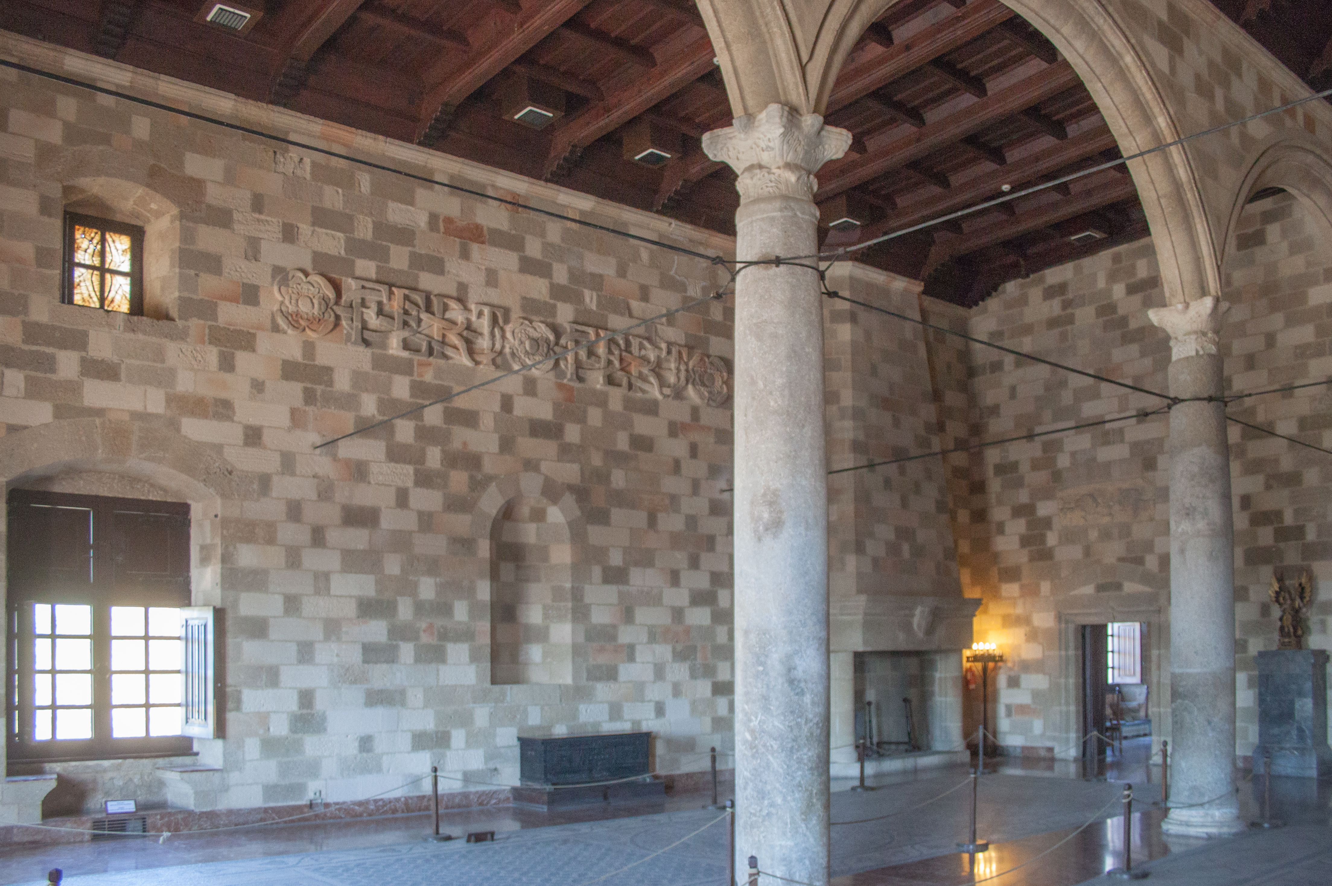 Main hall of the palace